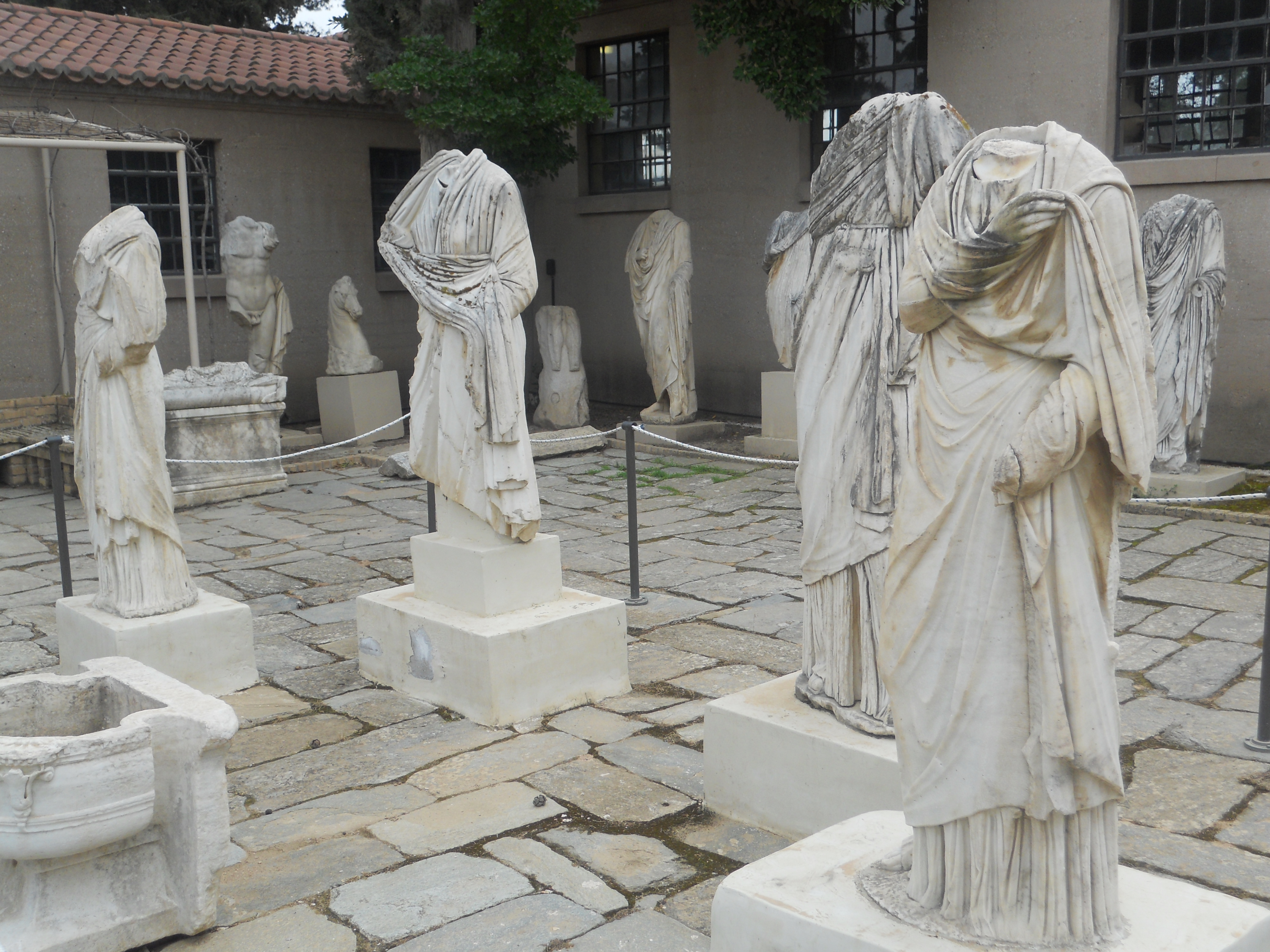 Archeological Museum of Ancient Corinth